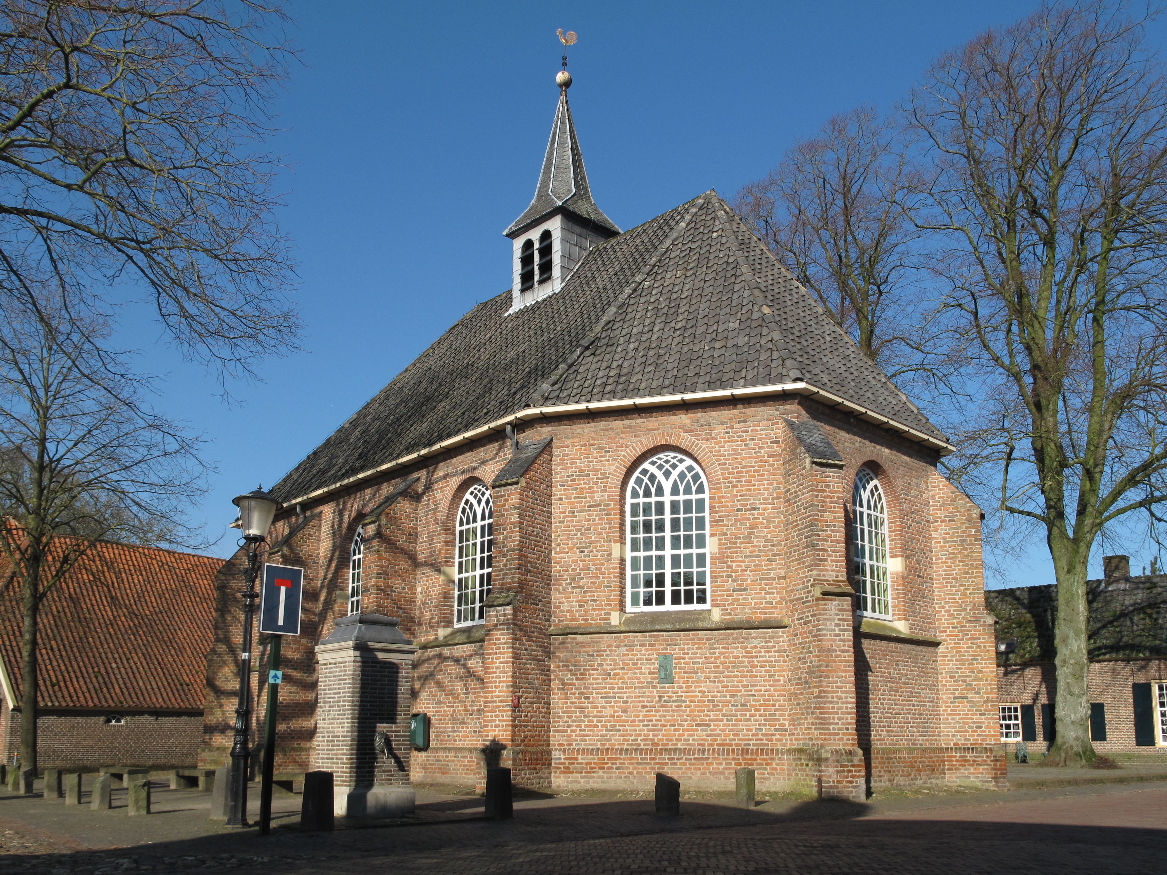 Bronkhorst, church